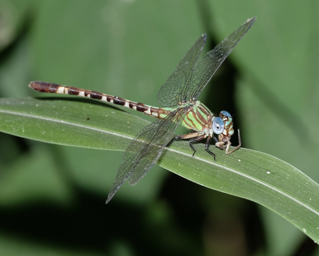 Blue-faced Ringtail (Erpetogomphus eutainia), Independence Golf Course, Gonzales, TX, US